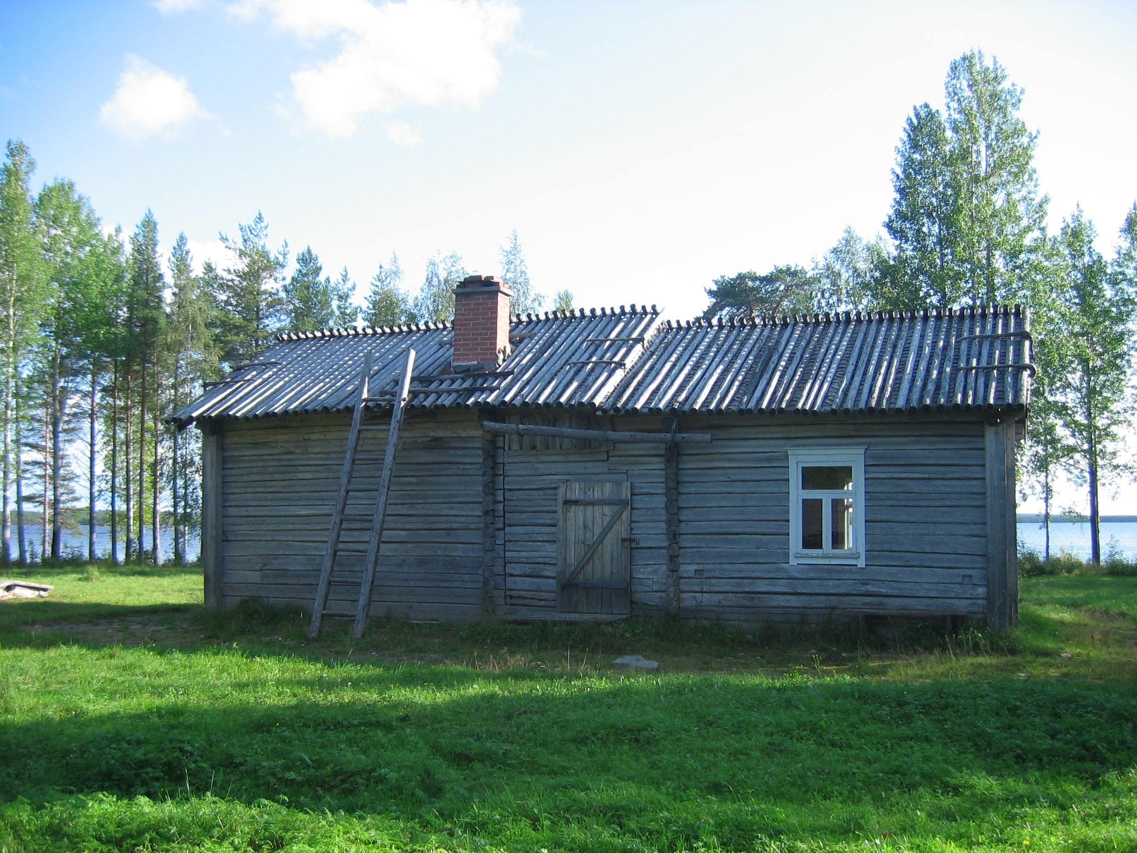 The main building of the Tiainen croft at the Kalhamajärvi lake in Auho, Puolanka, Finland.